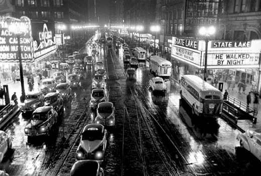 Photograph of Chicago at night in 1949 taken for Look magazine. The film He Walked by Night (1948) is playing at the State Lake Theater.